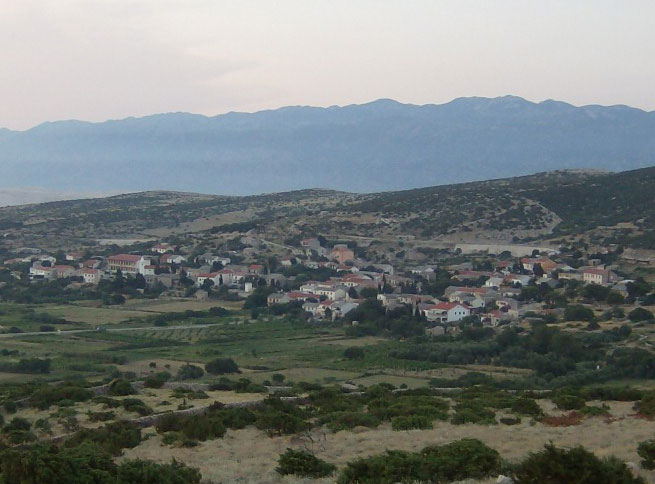 City of Kolan on the island of Pag, Croatia, Europe